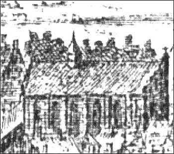 Detail from engraving by Johan van Wick from 1611 showing St. Clare's Priory in Copenhagen